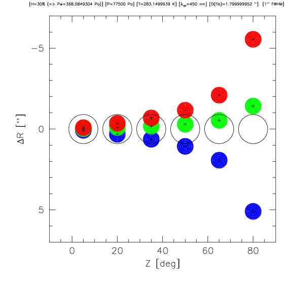 Atmospheric Dispersion occuring on a telescope